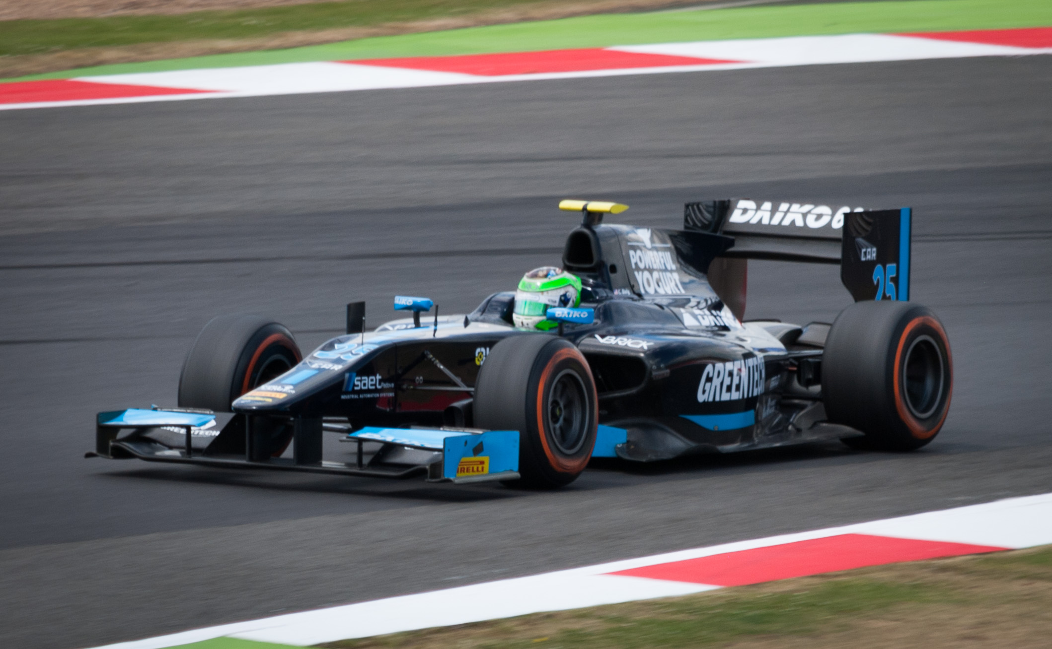 Conor Daly driving for Team Lazarus at Silverstone. Round 5 of the 2014 GP2 Series Championship.